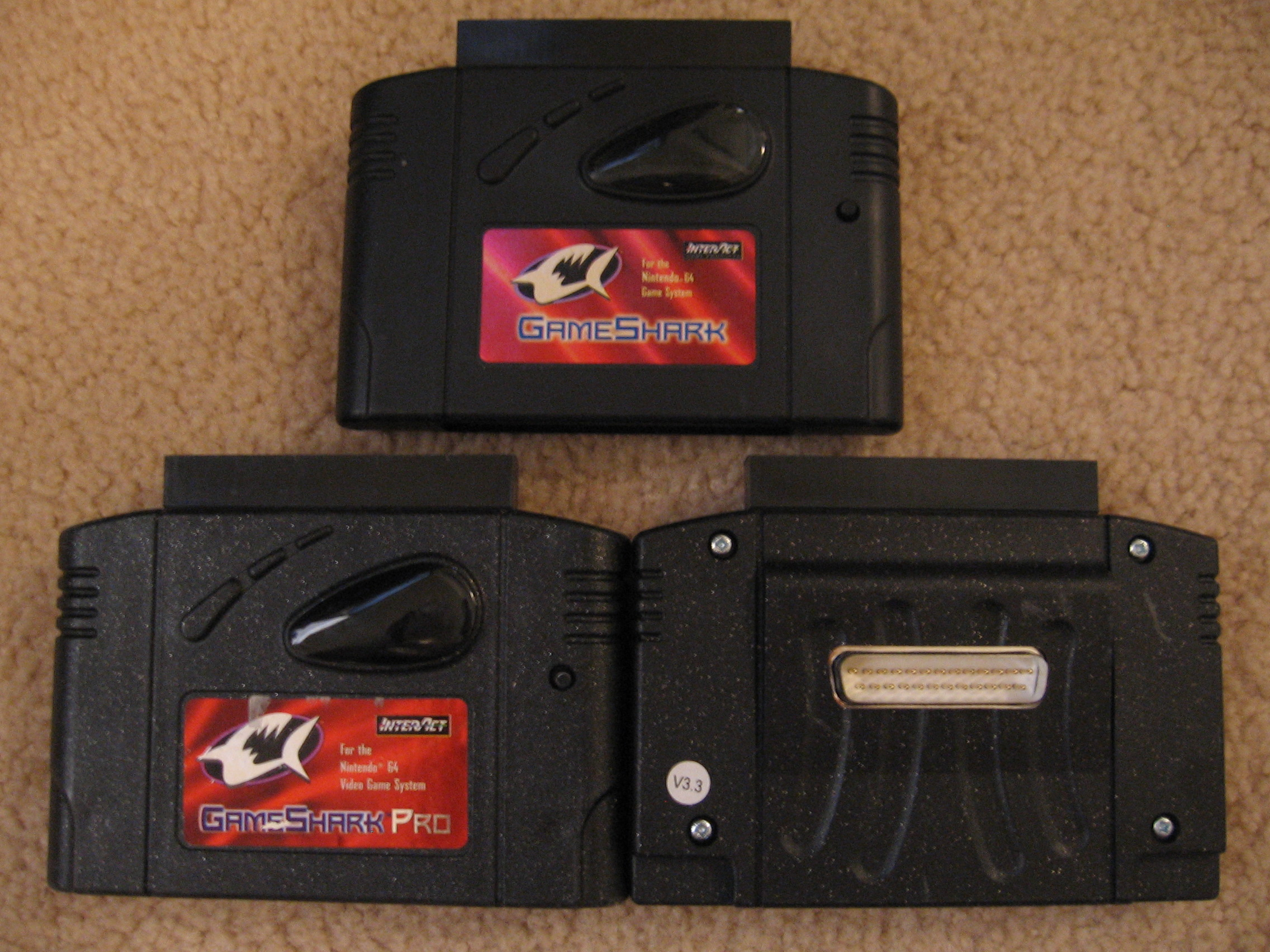 Picture taken of my three Gameshark cartridge versions: 2.2, 3.0, and 3.3.